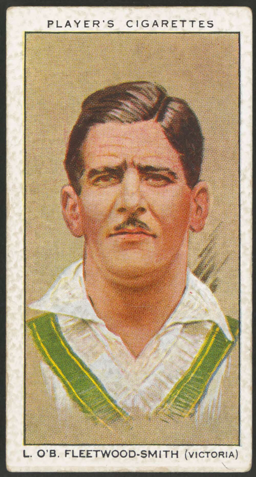 Chuck Fleetwood-Smith, cigarette card